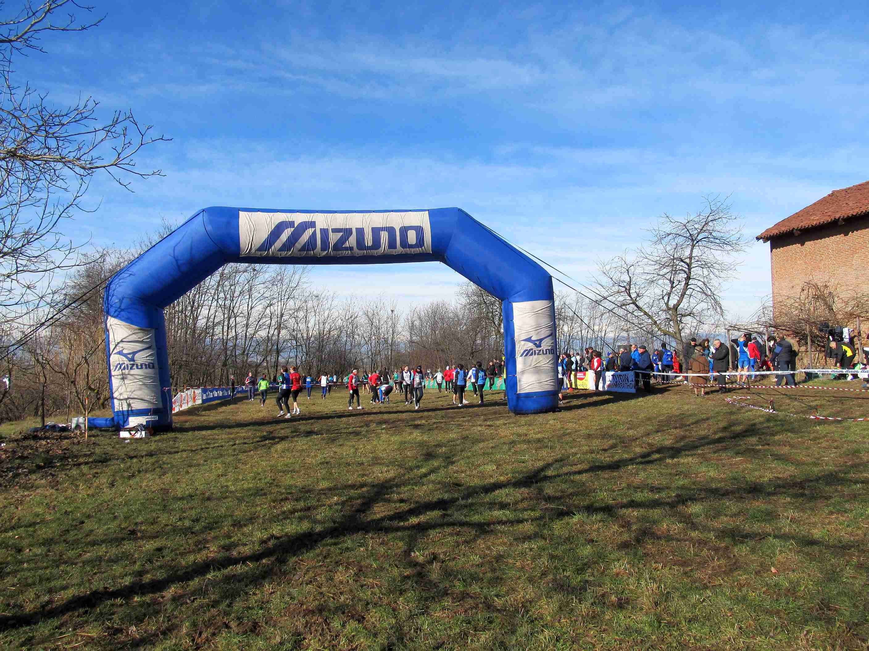 Cross di Trofarello: 2013 edition in frazione Rivera